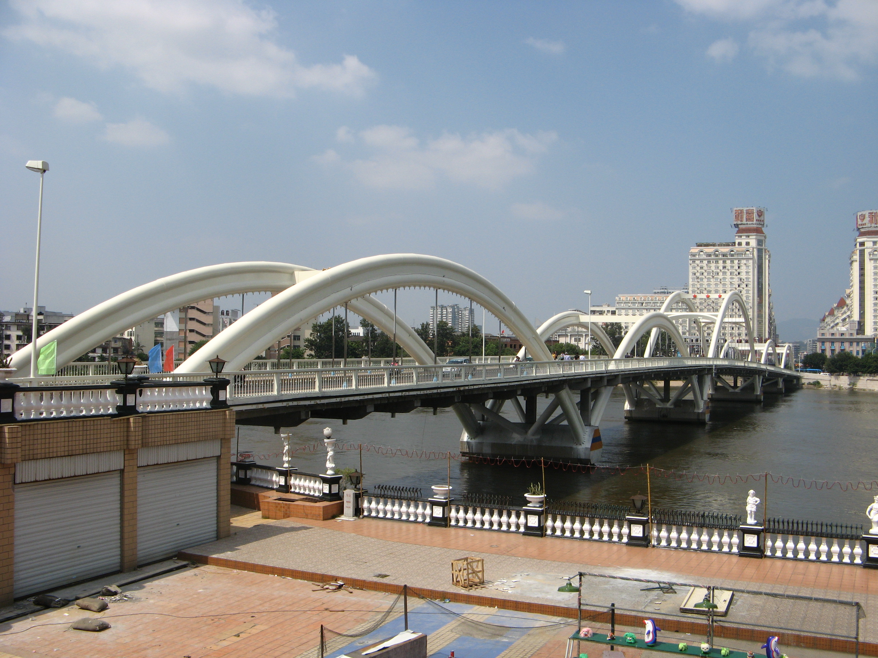 Fuzhou Liberation Bridge